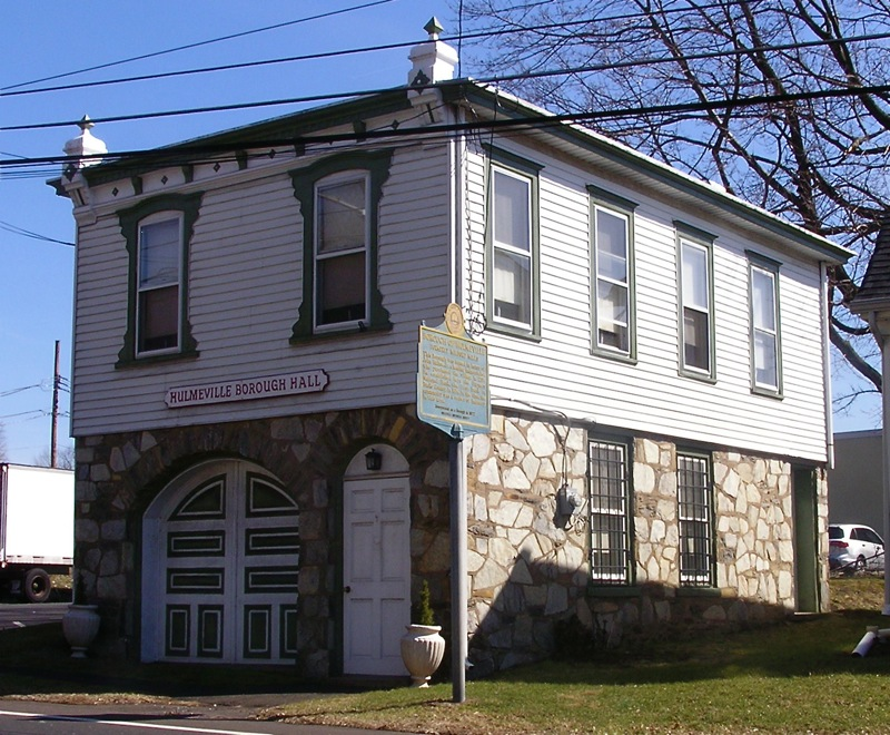 Borough Hall, Hulmville, Pennsylvania.